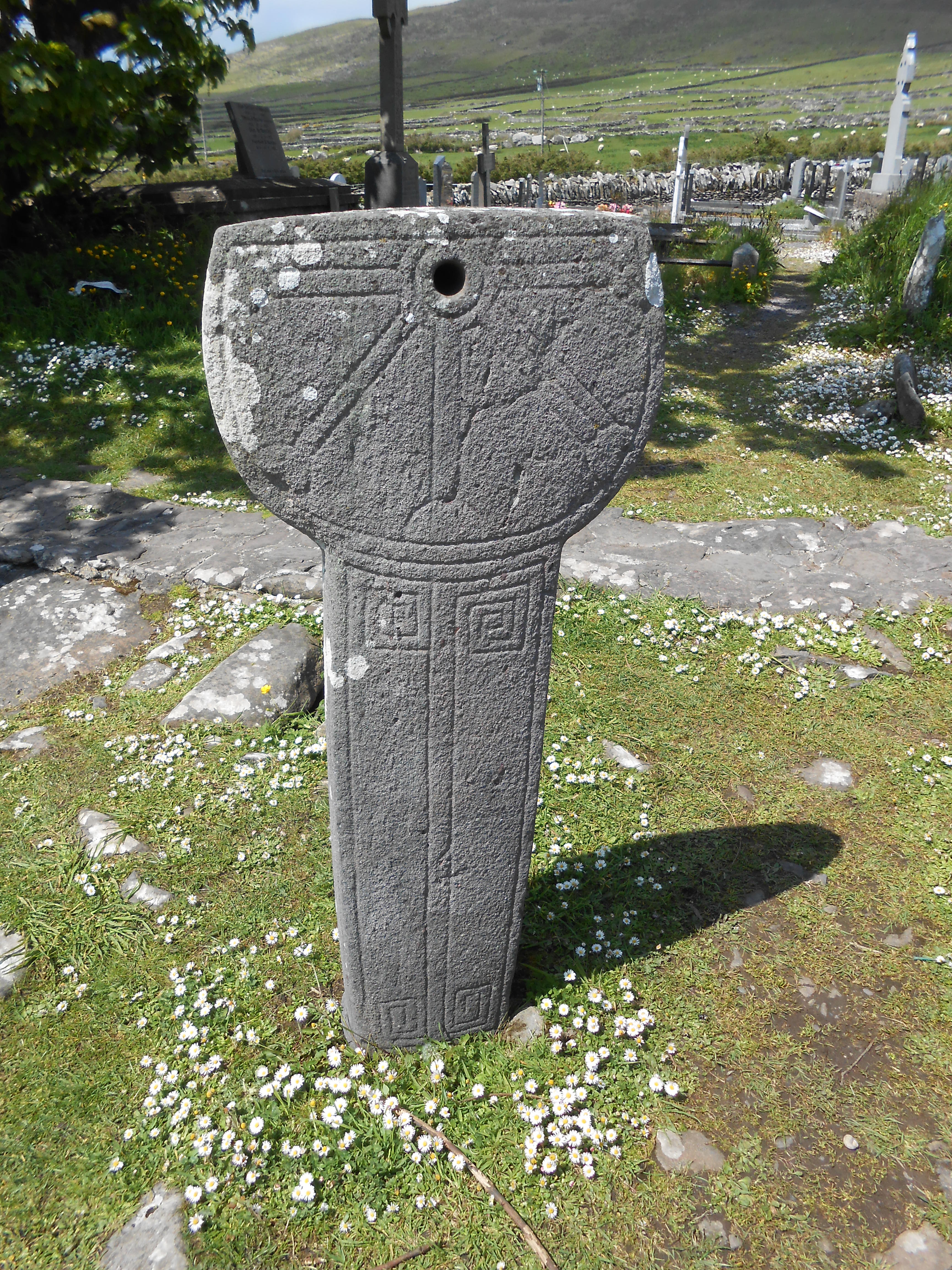 The Sun dial stone in the graveyard at Kilmalkedar